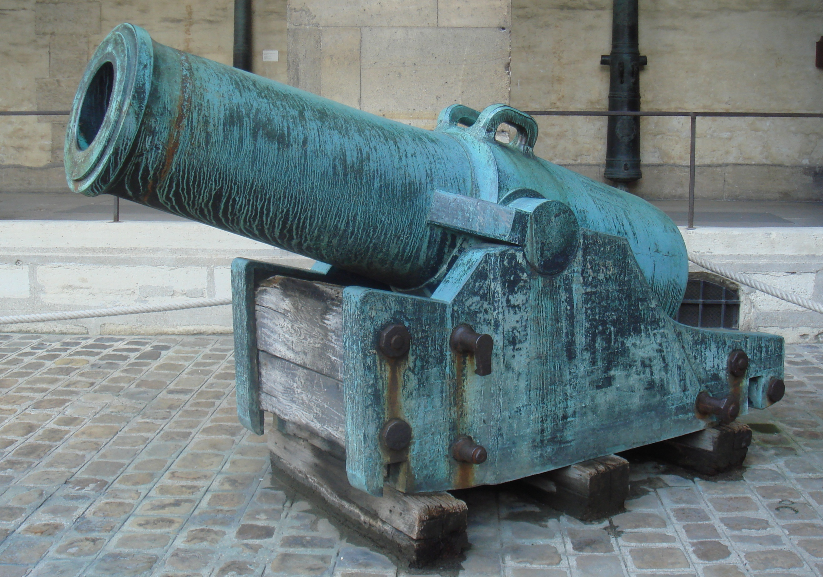 Canon_obusier_de_11_pouces_Systeme_An_XI_1810